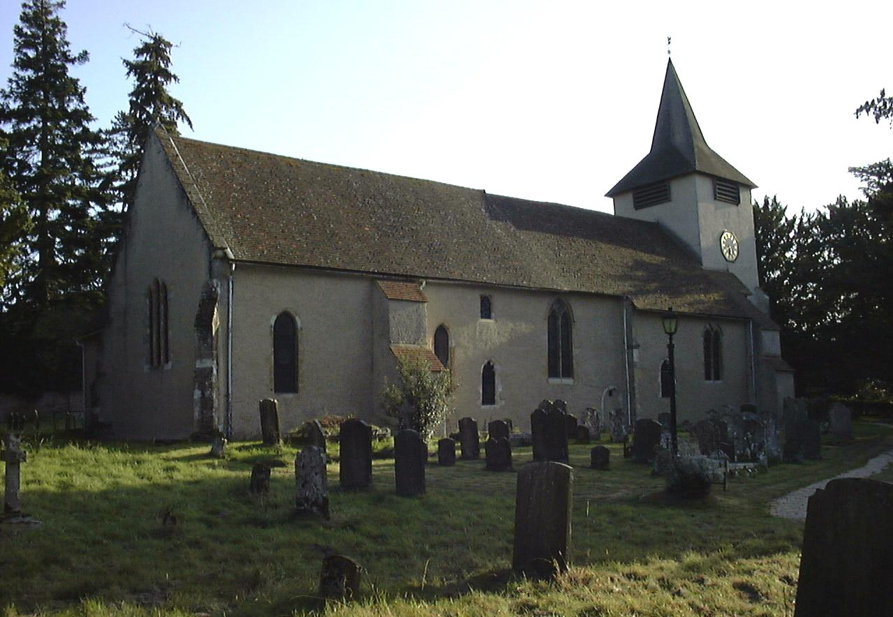 St. Mary's Church in the village of Aldermaston, England. The picture was taken at approximately 16:30 UTC under a clear sky. The equipment used was a Toshiba PDR-M1 digital camera in Auto mode. The original picture was cropped from the bottom to remove excess foreground, and the brightness of the image was increased.